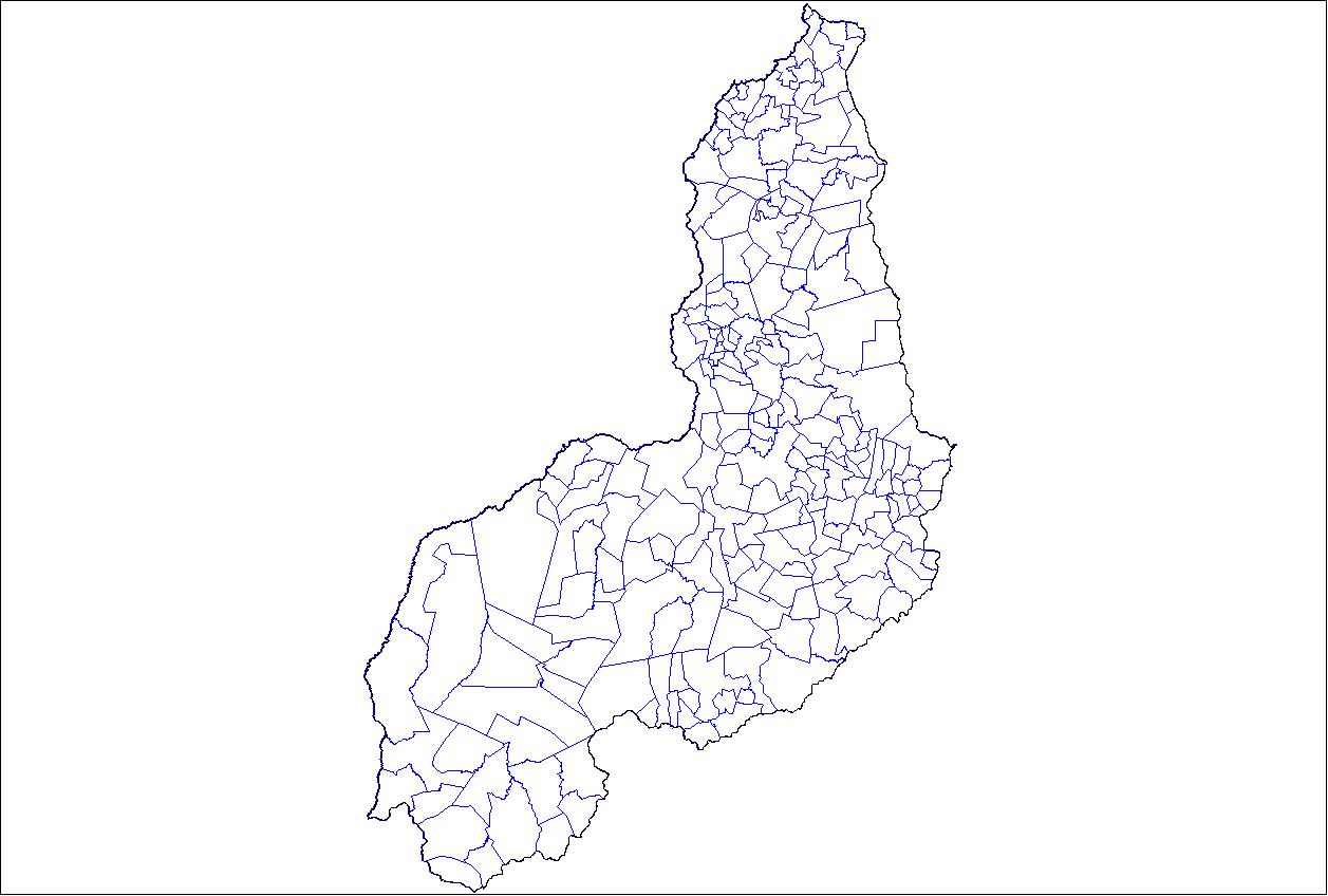 Map of the municipalities of the state of Piaui, Brazil. Created by Rarelibra 22:14, 24 August 2006 (UTC) for public domain use. Created using MapInfo Professional v8.5 and various mapping resources.